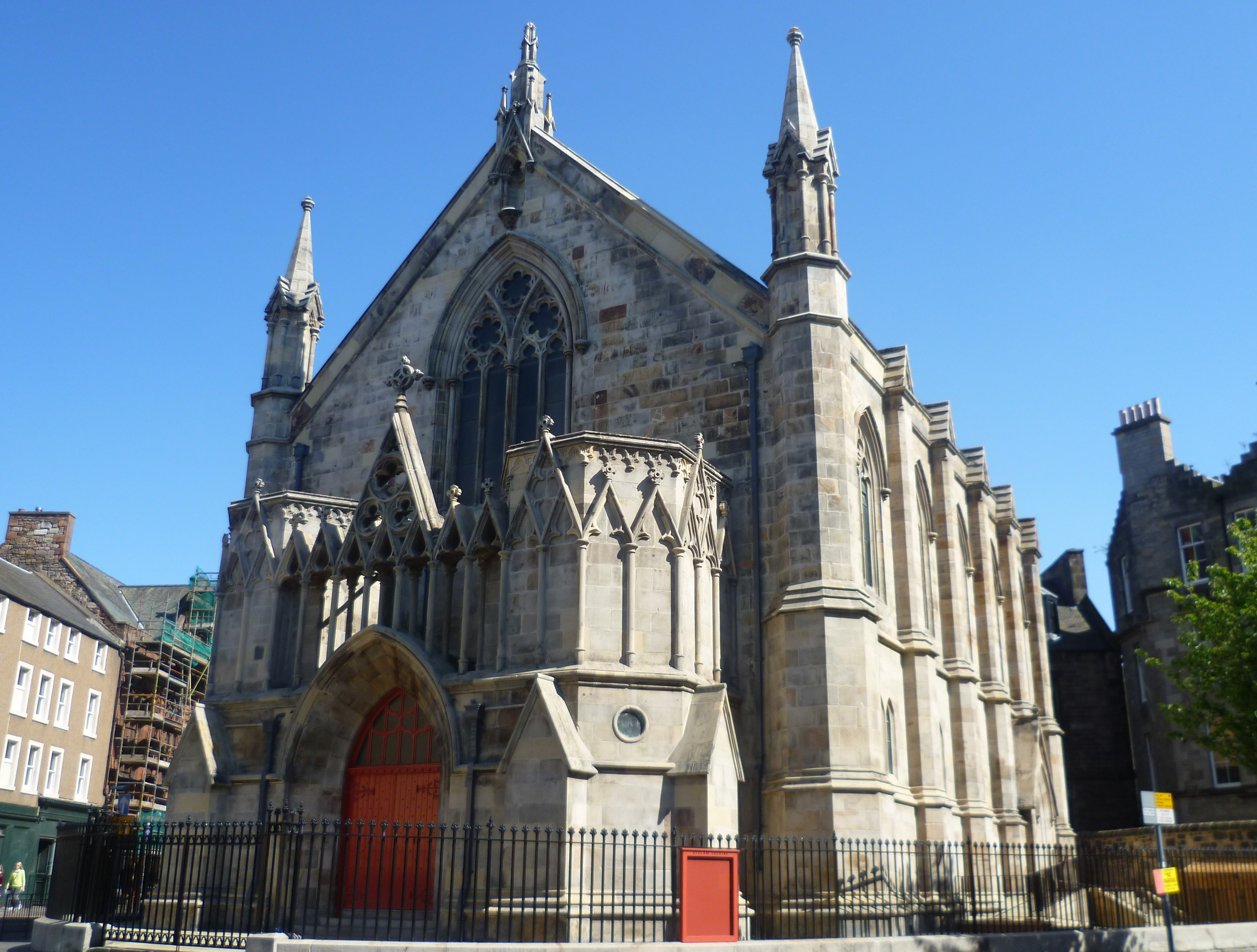 Designed by Thomas Hamilton in 1846 as the New North Road Free Church, this building is now one of the main theatre venues for the annual Edinburgh Festival 'Fringe'. It takes its name from the formerly adjacent site of the City Poorhouse to which lunatics were committed.